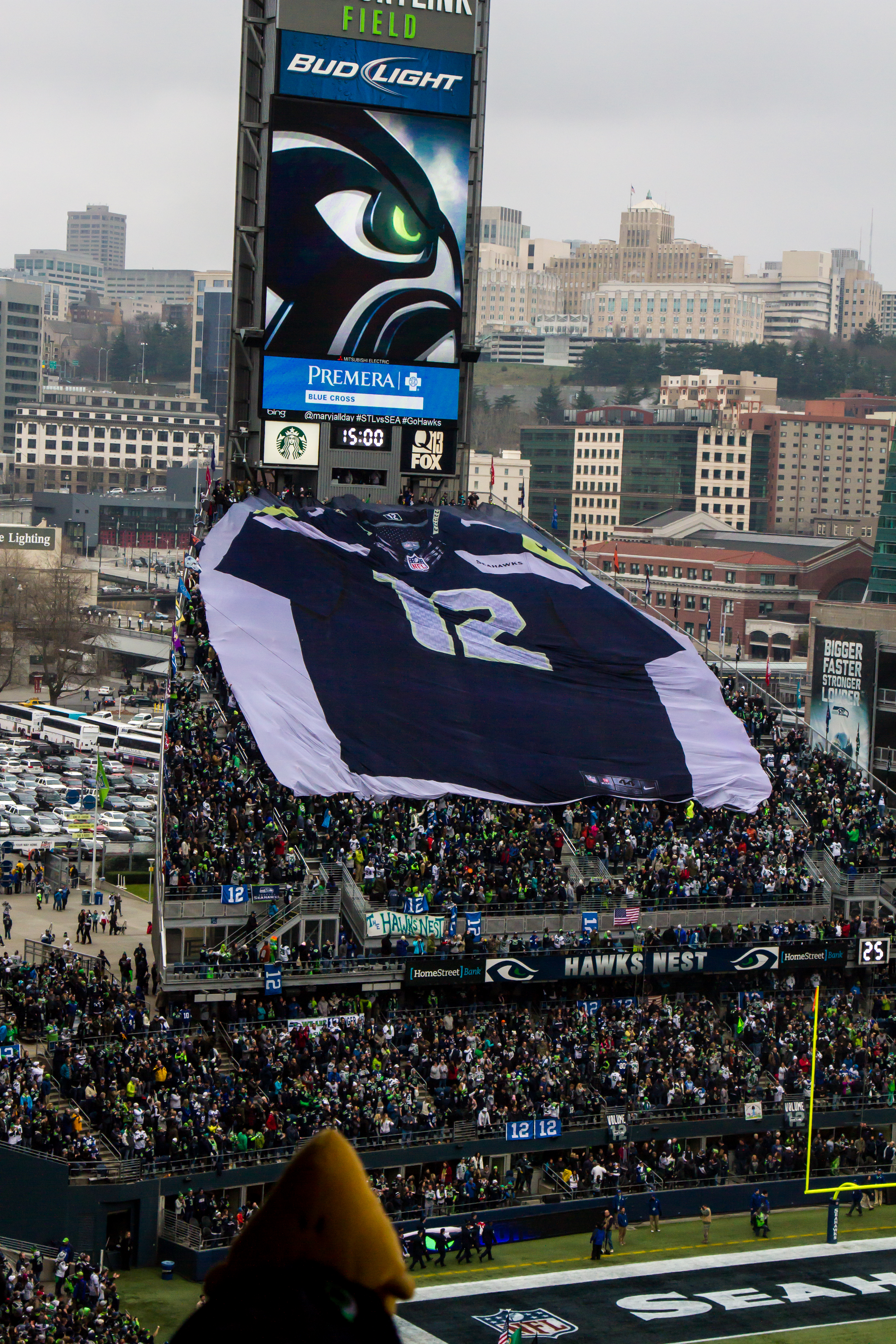 Seahawks vs Rams 12.29.13